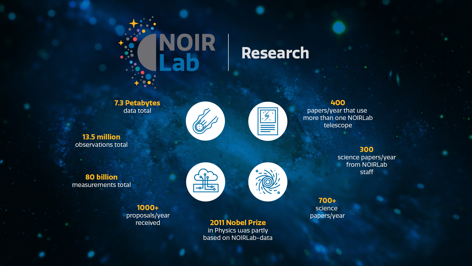 Research